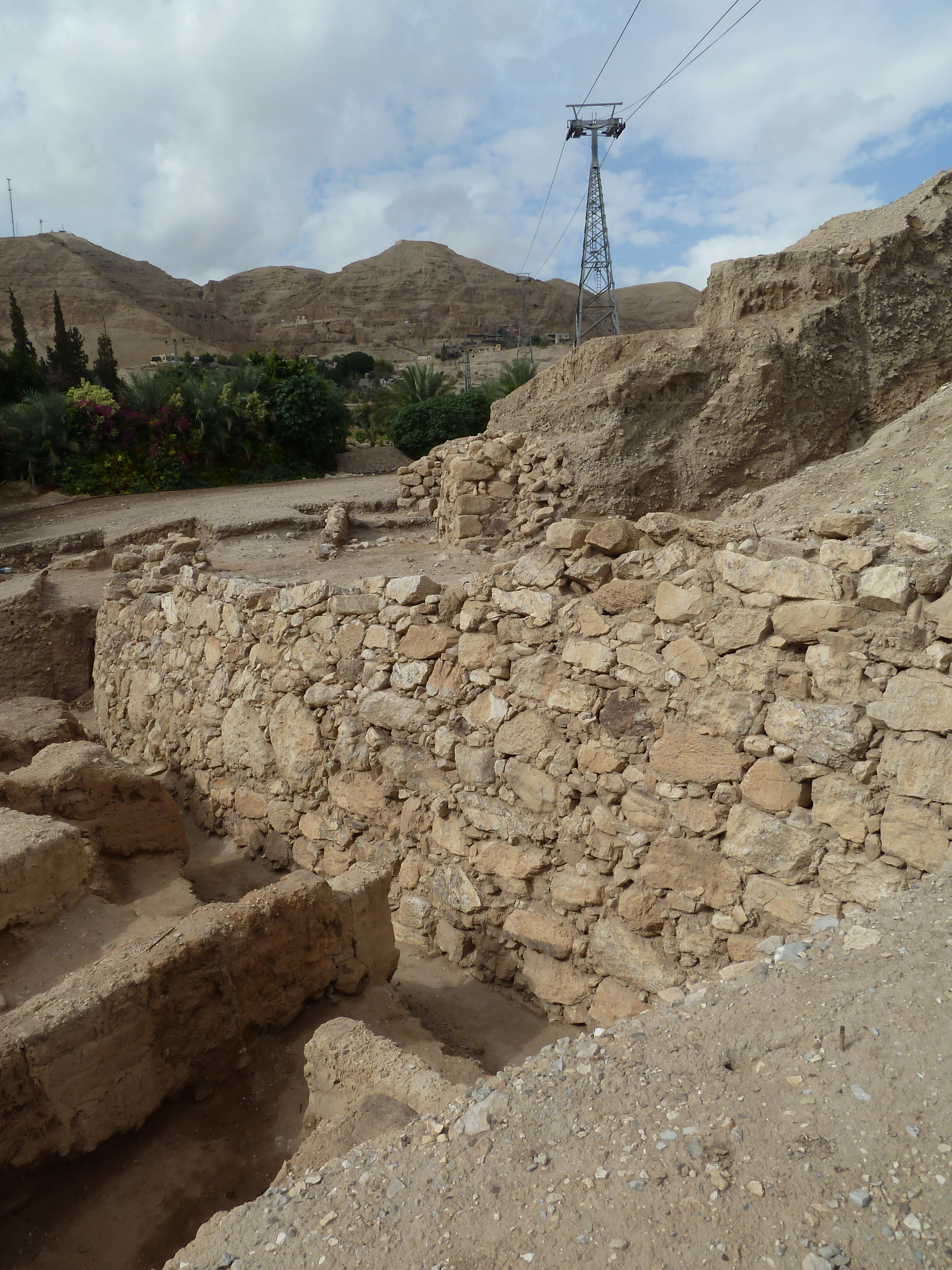 Area A - Middle Bronze II period, City walls and Buildings, 1800 - 1650 BC, Tell Es -Sultan, Jericho